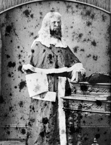 George Rogers Harding was born in Somerset, England, on 3 December 1838. Gravitating toward the legal profession he was called to the Bar in 1861. Arriving in Brisbane with his wife Emily Morris in October 1866, he was immediately admitted to the Bar. In April 1876 he was appointed a commissioner under the 1872 Civil Procedure Reform Act and in July 1879 became senior puisine judge of the Supreme Court of Queensland. He became ill during a trial and died 31 August 1895 in his chambers after delivering a judgement. (Information taken from: Australian dictionary of biography, volume 4, 1972) Date: 1879 Description: Digital format: image/jpeg ; Original format: copy print : b&w Identifier: Negative number: 67489